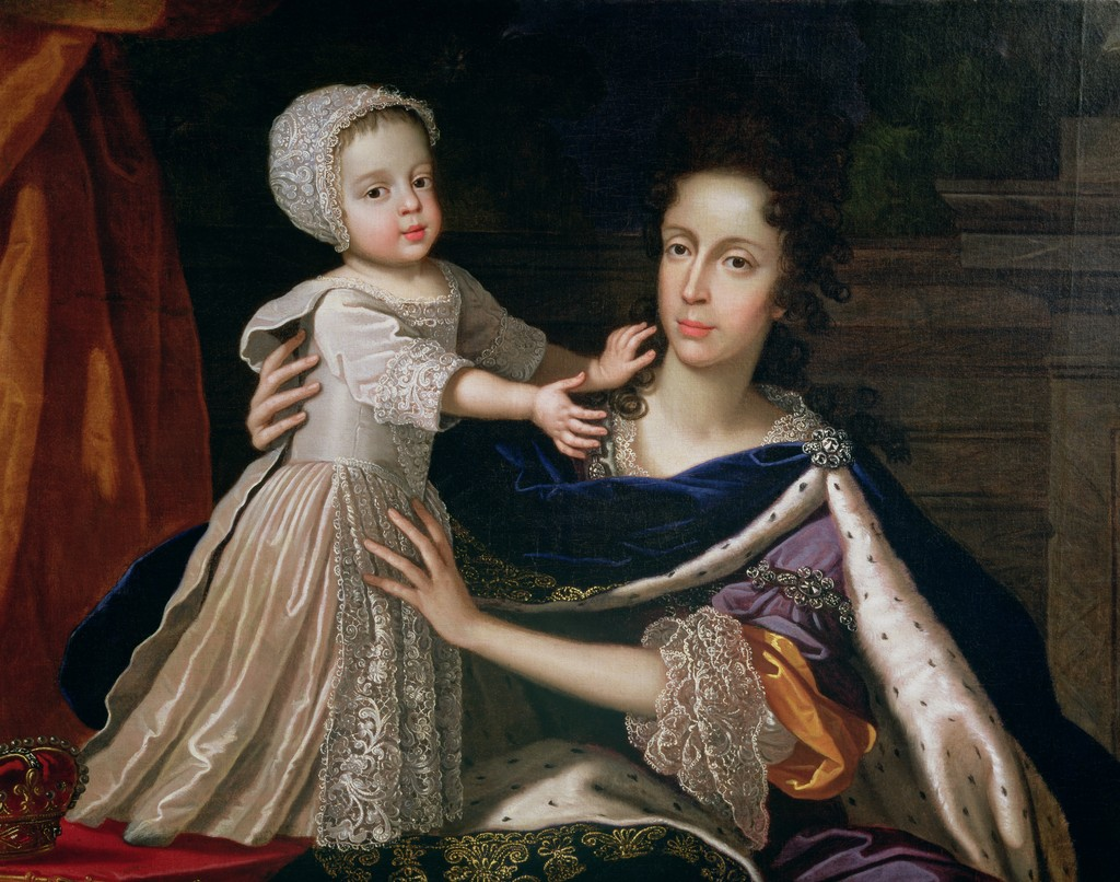 Queen wife of James II, with her only son, James III, the Jacobite Pretender (1688-1766).